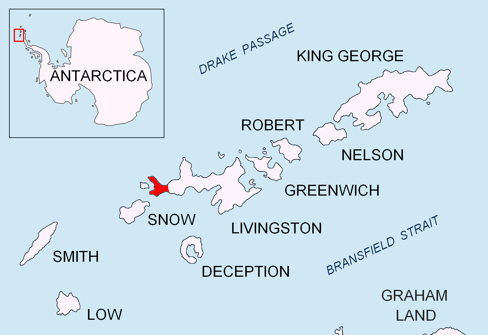 Location of Byers Peninsula on Livingston Island in the South Shetland Islands.